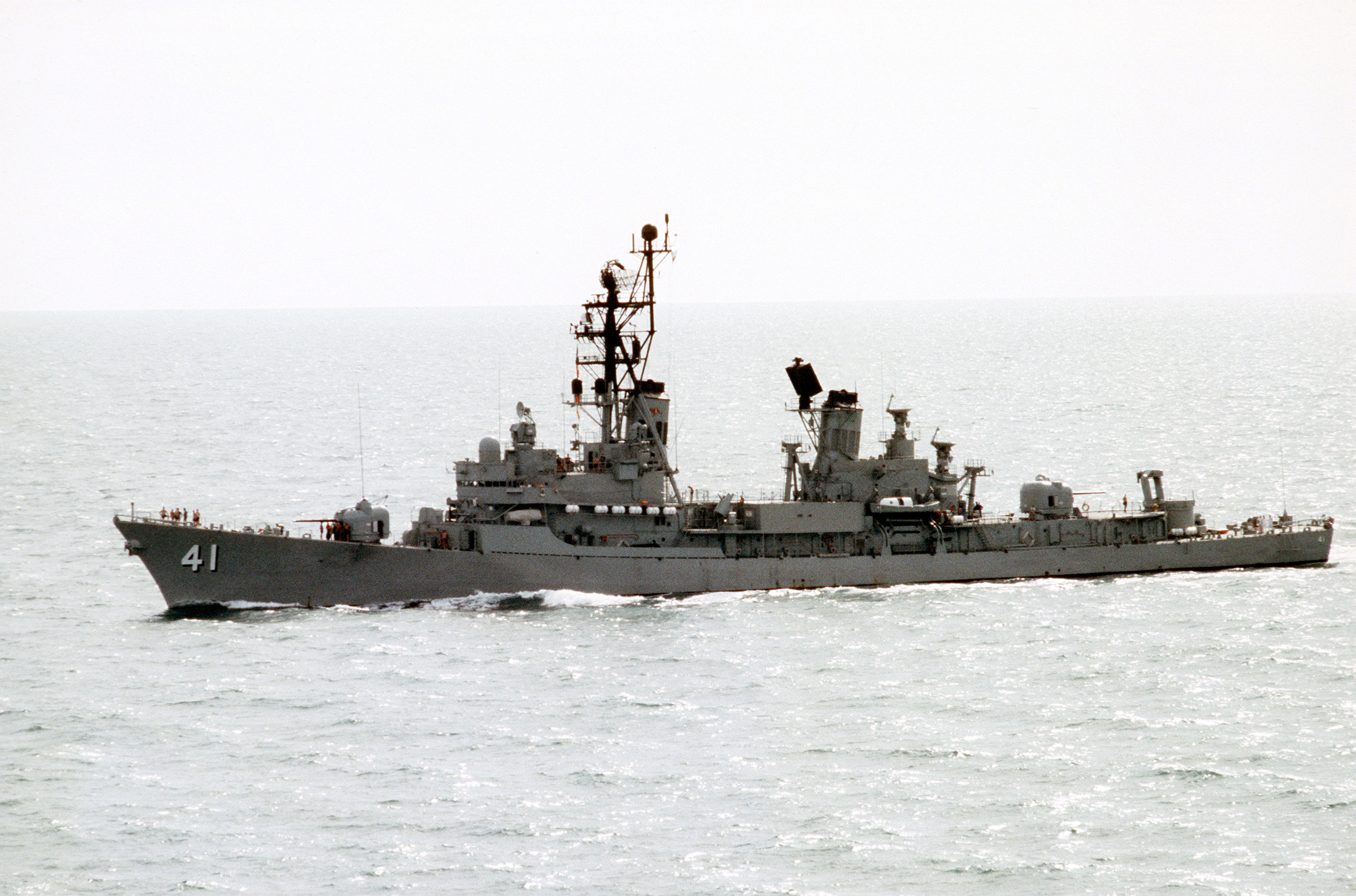 Aerial port beam view of the Perth class Australian destroyer HMAS BRISBANE (DD 41) underway during PITCH BLACK 84. The BRISBANE is providing radar assistance for land based units and E-3A Sentry Airborne Warning and Control Systems aircraft during the joint US, Australian and New Zealand exercise.